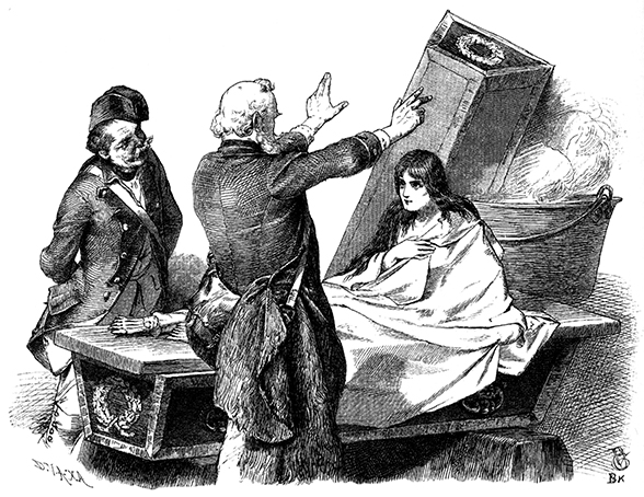 Illustration for 'Brother Lustig' by Philipp Grot Johann (1841-1892) for 'Grimm's Fairy Tales' 1893